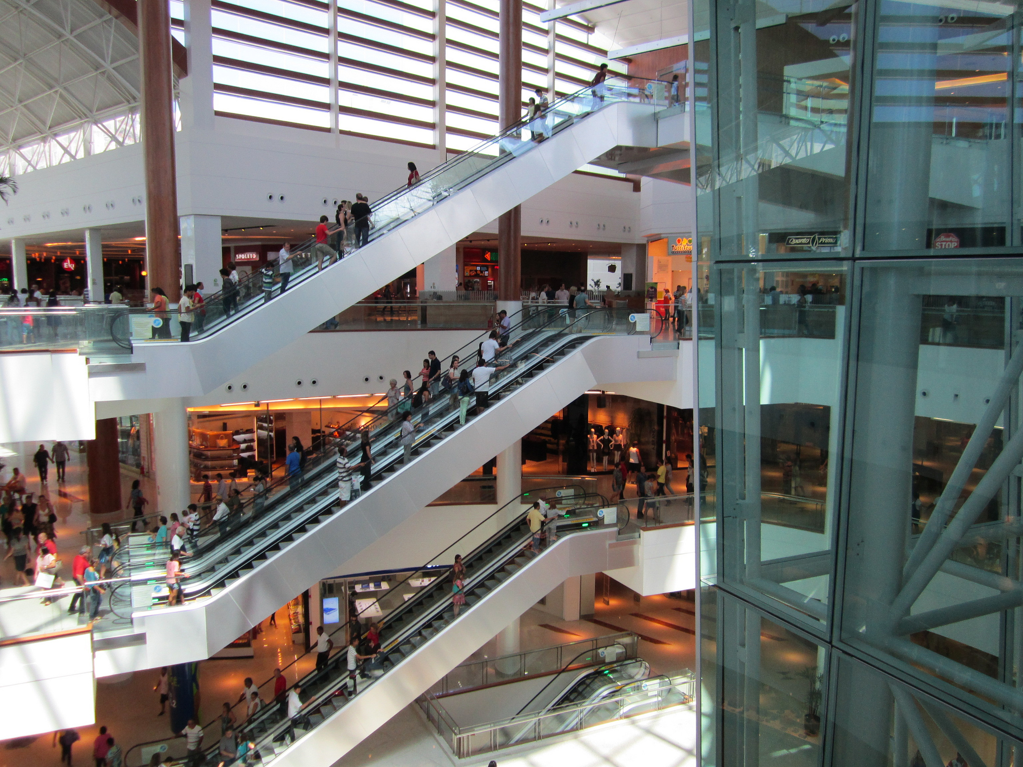 RioMar Shopping - Recife, Pernambuco, Brazil